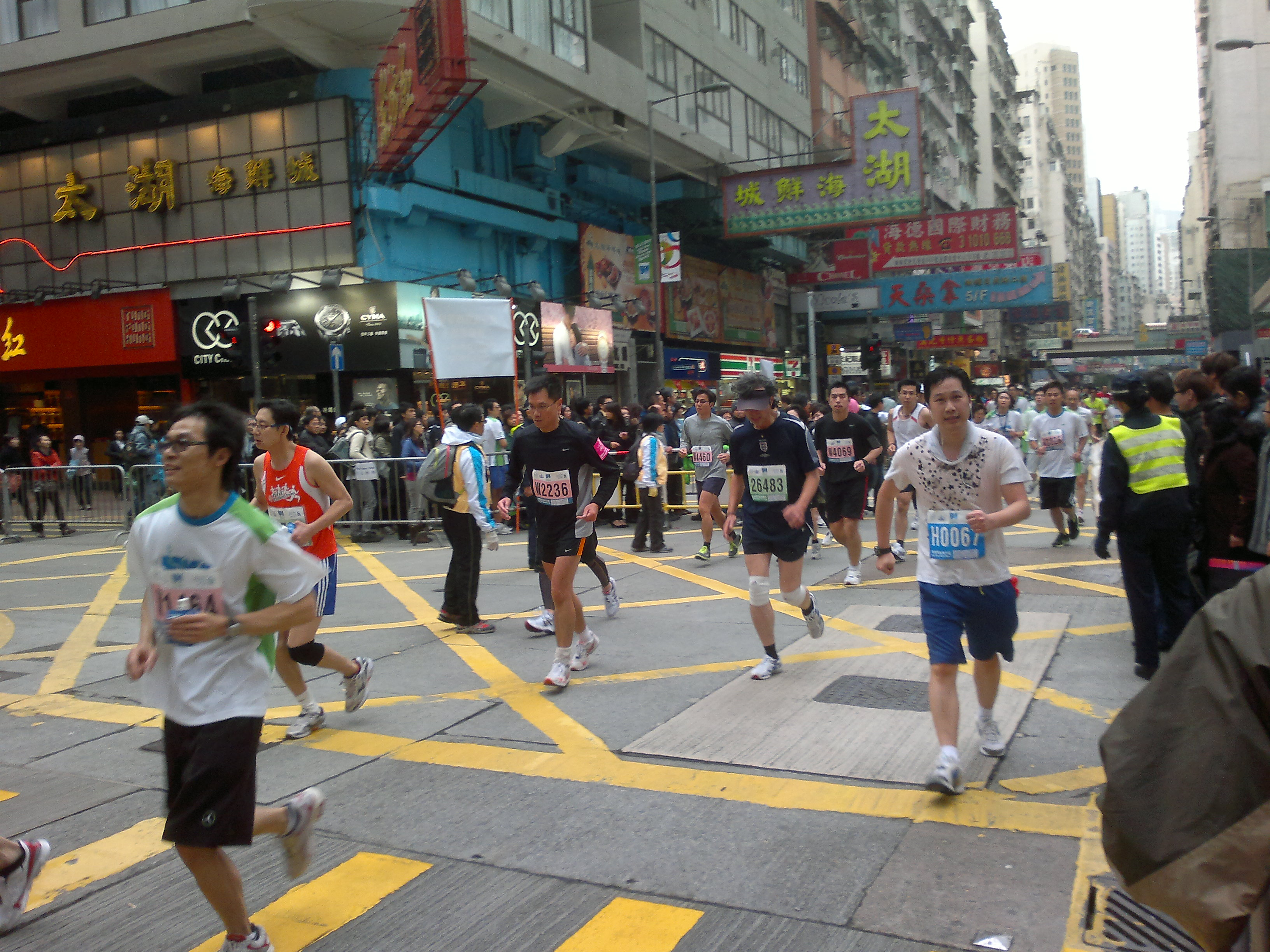 Hong Kong Marathon 2011 at Lockhart Road